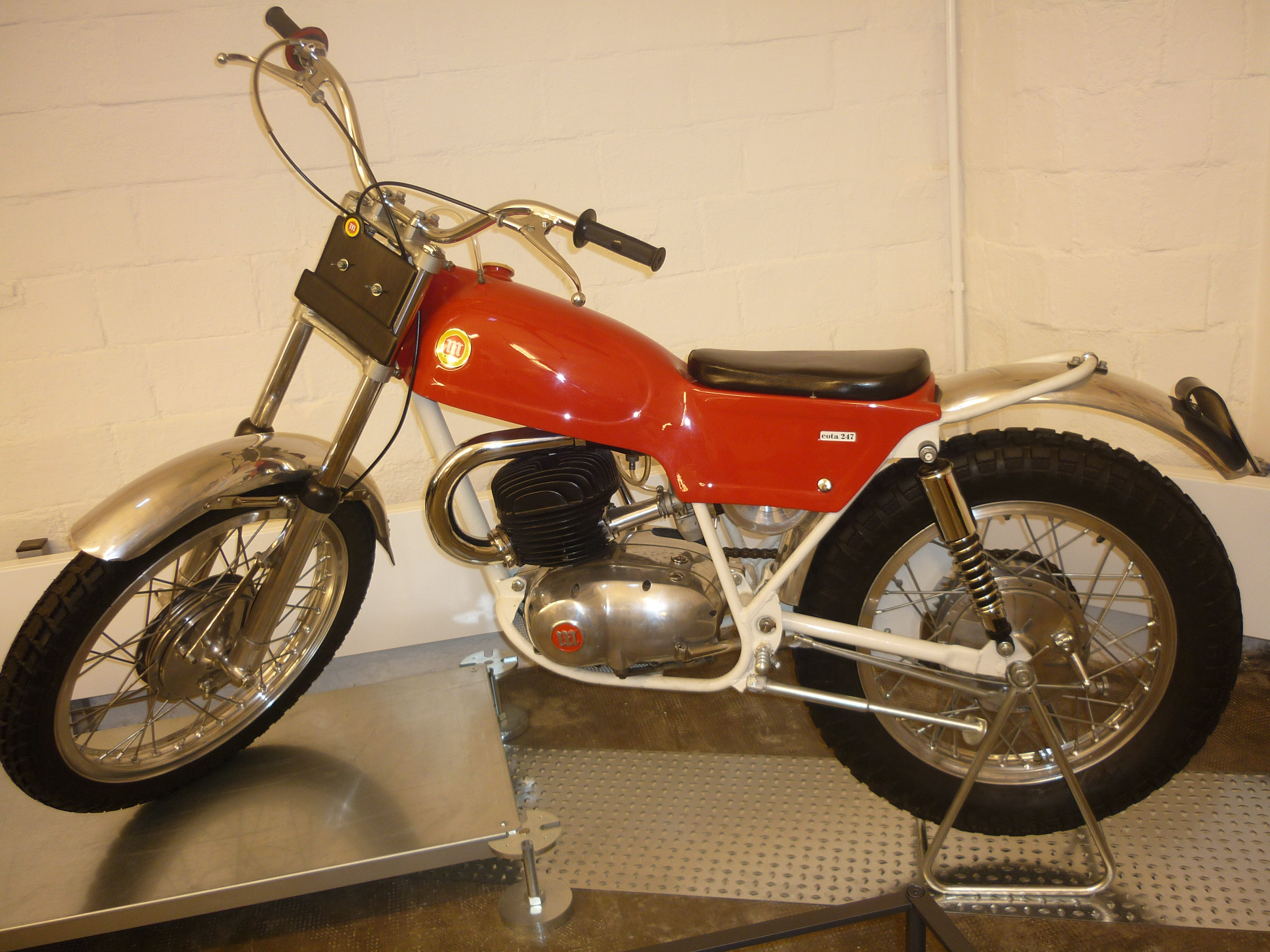 Montesa Cota 247 (1968, the first version).Museu de la Moto de Barcelona (Catalonia).